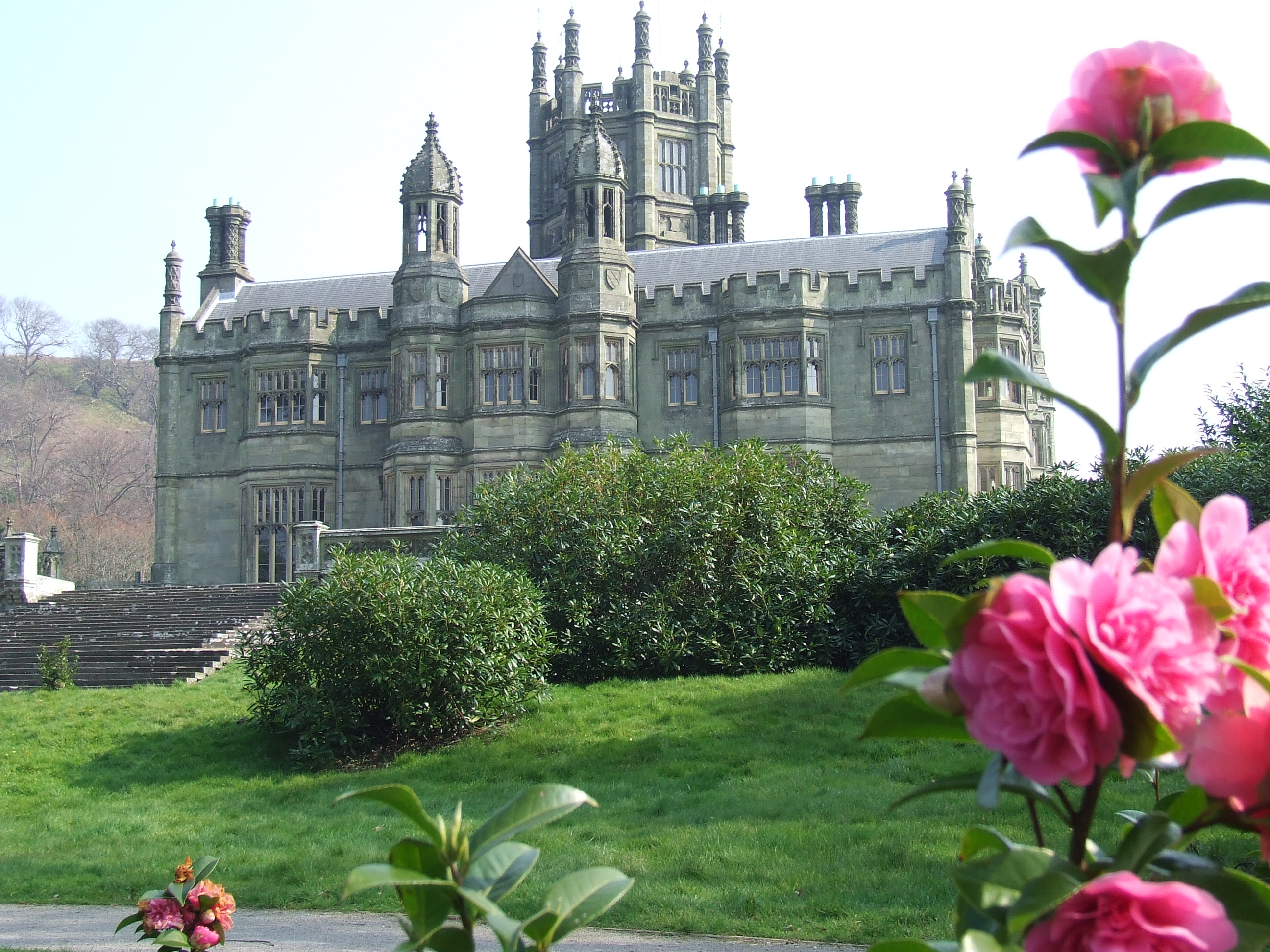 Margam Castle near Port Talbot, Castle scene in spring time